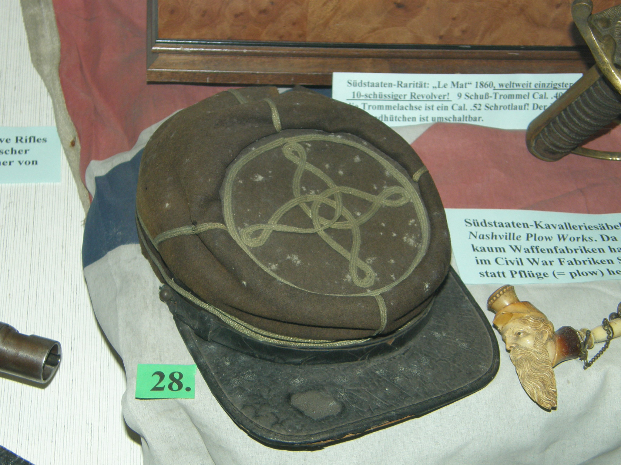 civilwar kepi